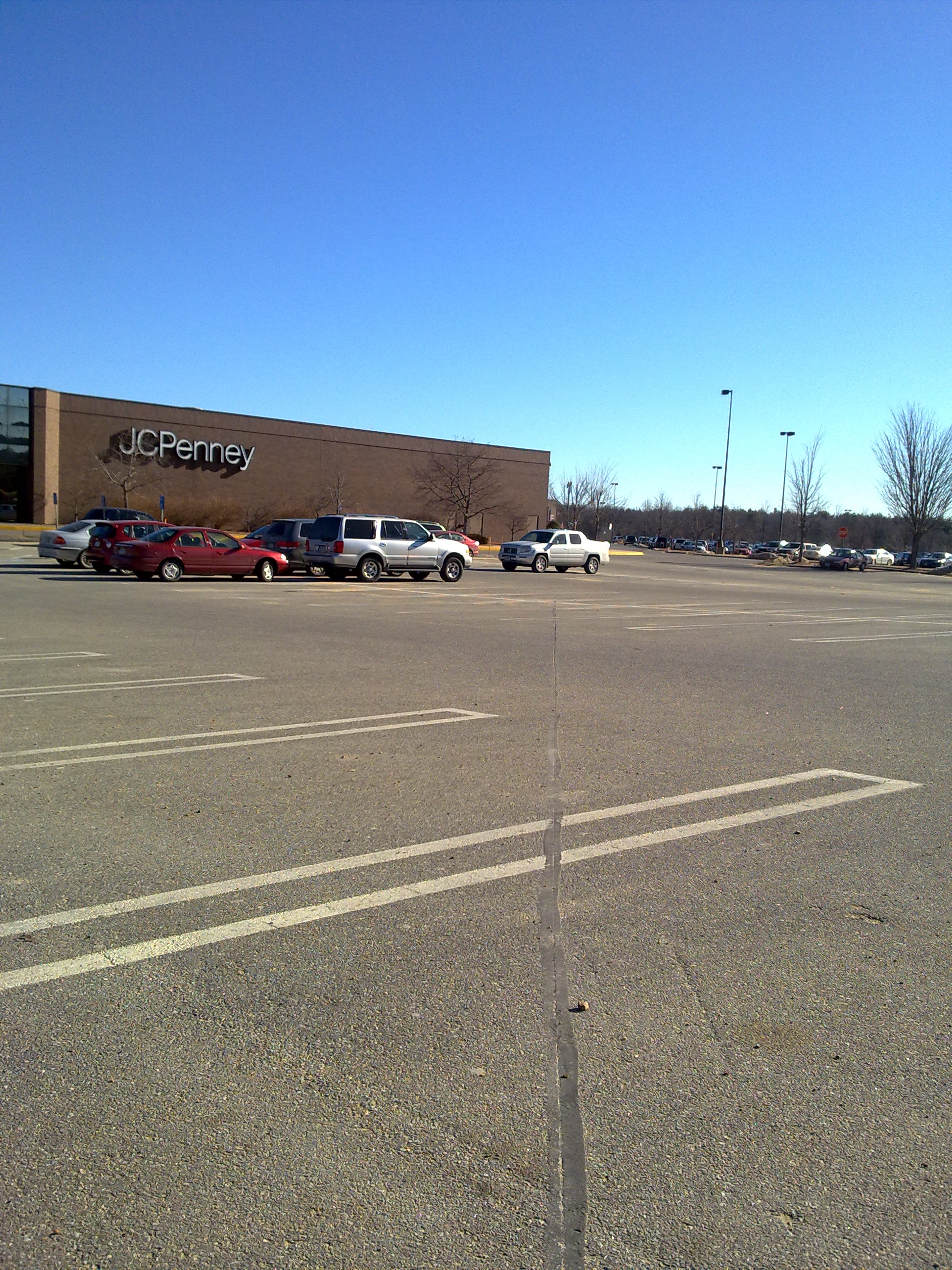 Pheasant Lane Mall parking lot in Nashua, NH, USA. The line in the center is the State Line between New Hampshire (L) and Massachusetts (R). Note the corner of JC Penney which does not reach into MA for sales tax reasons. See associated article.